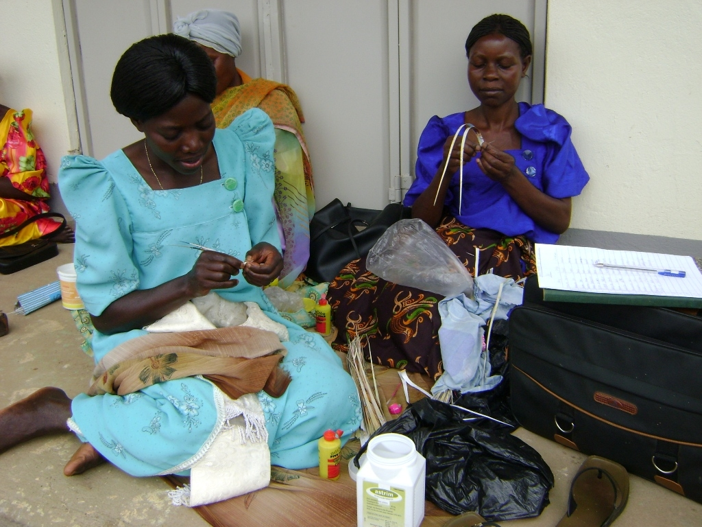 These women are part of the Hope Again Women artisan group in Rakai Uganda.